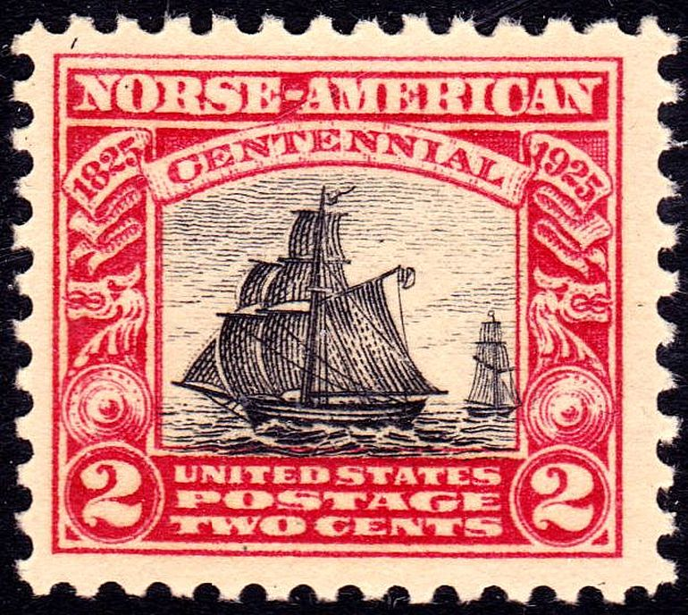 United States Postage Stamp: Norse American Centennial 1925 Issue 2 cents, sloop Restauration constructed in Norway in 1801